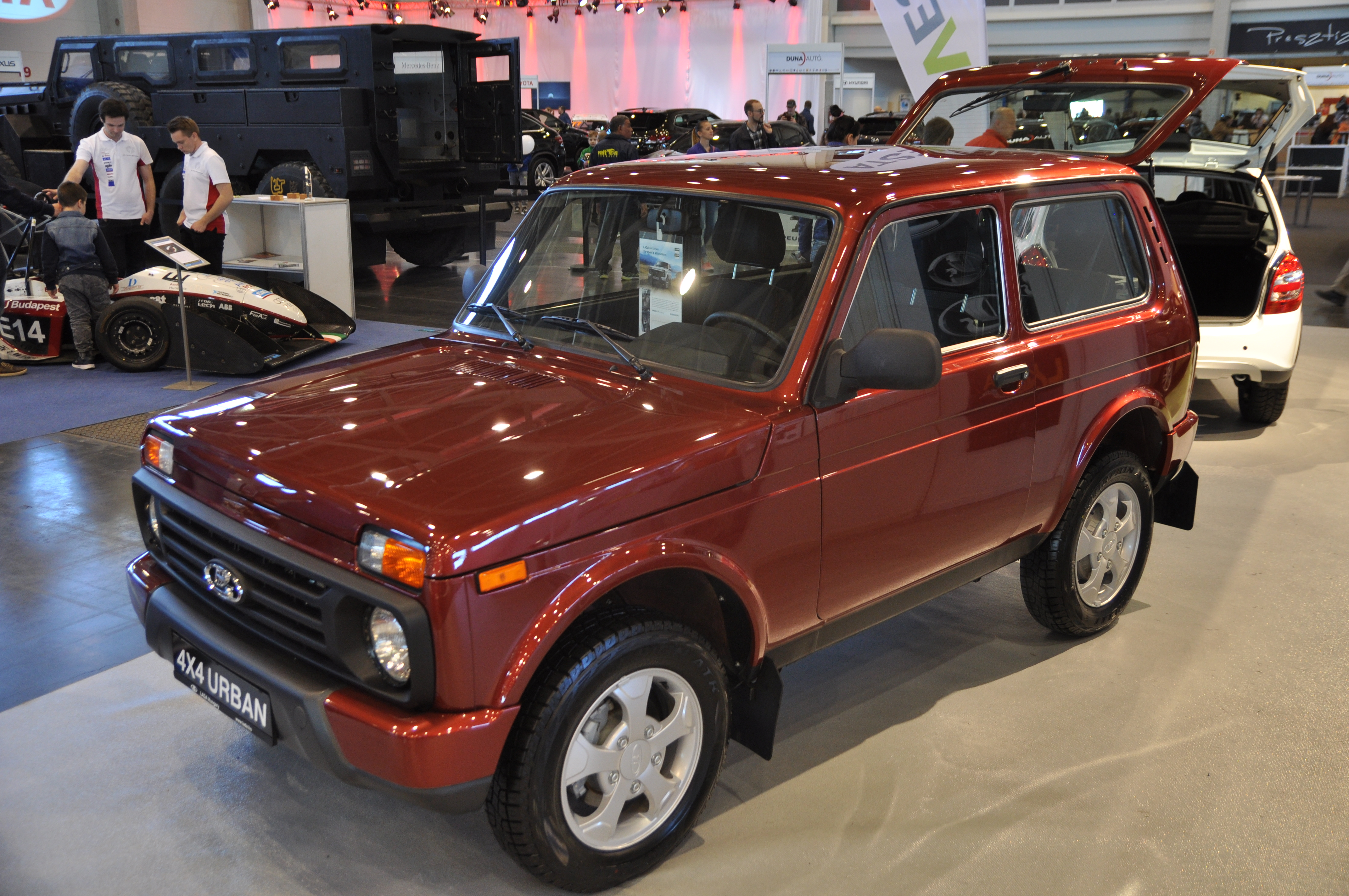 Budapest, Hungexpo, Automobil and Tuning Show 2017